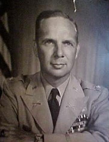 Claire Elwood Hutchin, Jr. was a 1938 graduate of the United States Military Academy, a U.S. Army general and combat battalion commander during the Korean War. He later commanded the 4th Infantry Division and First United States Army.